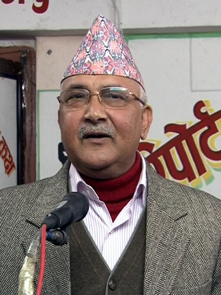 leader of CPN UML